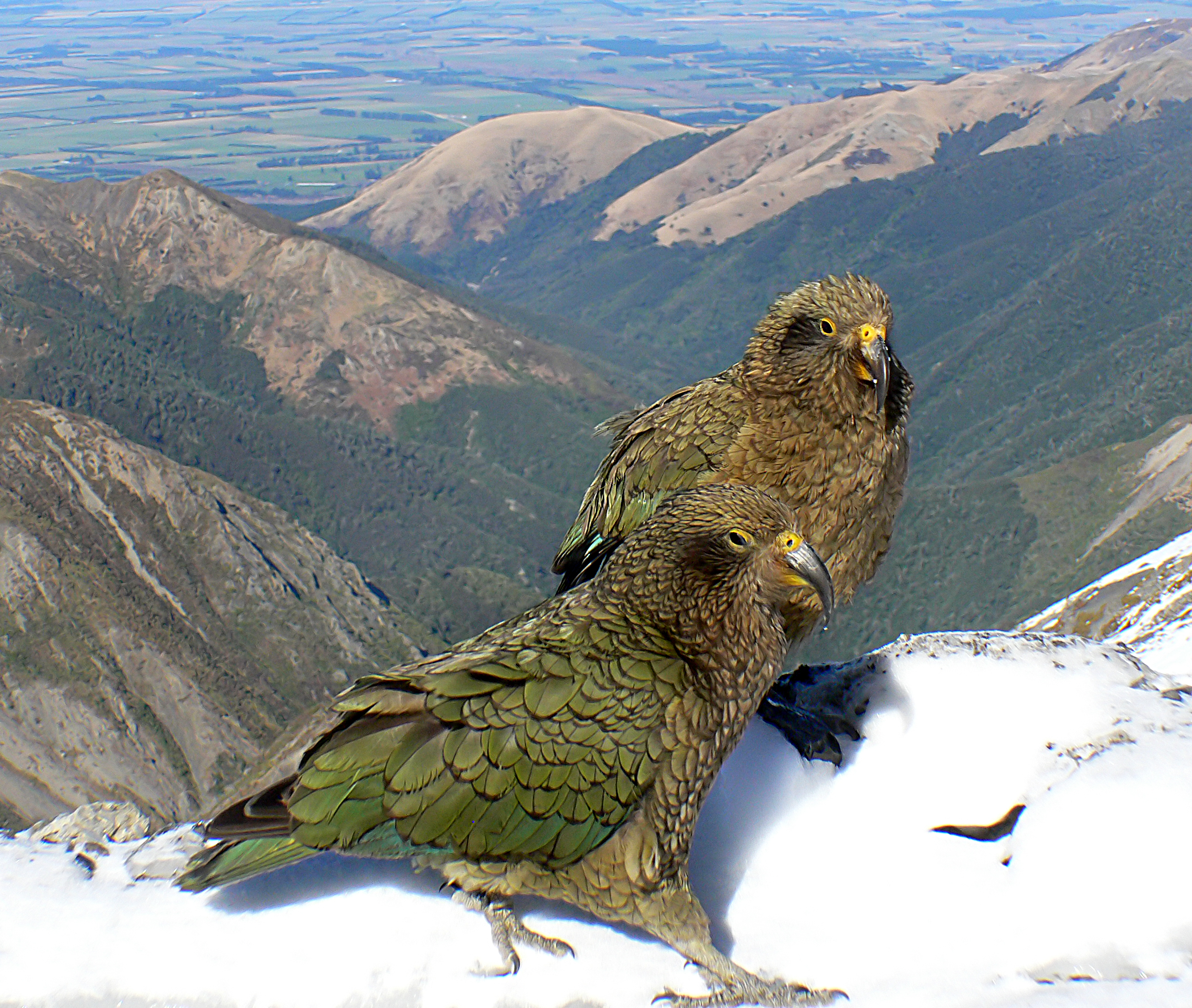 The kea Nestor notabilis) is a large species of parrot of the superfamily Strigopoidea found in forested and alpine regions of the South Island of New Zealand. About 48 cm (19 in) long, it is mostly olive-green with a brilliant orange under its wings and has a large, narrow, curved, grey-brown upper beak. The kea is the world's only alpine parrot. Its omnivorous diet includes carrion but consists mainly of roots, leaves, berries, nectar, and insects. Now uncommon, the kea was once killed for bounty due to concerns by the sheep-farming community that it attacked livestock, especially sheep It received full protection in 1986